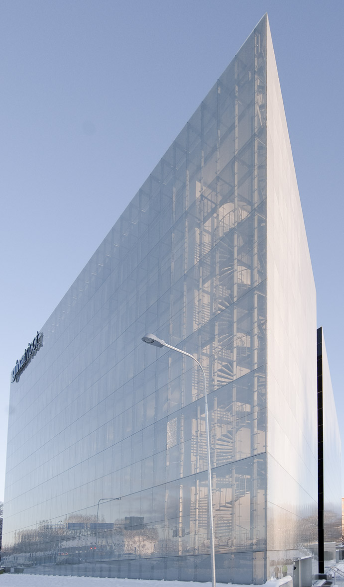 HQ for fashion brand Gina Tricot in Borås, Sweden. Architect Gert Wingårdh 2010.